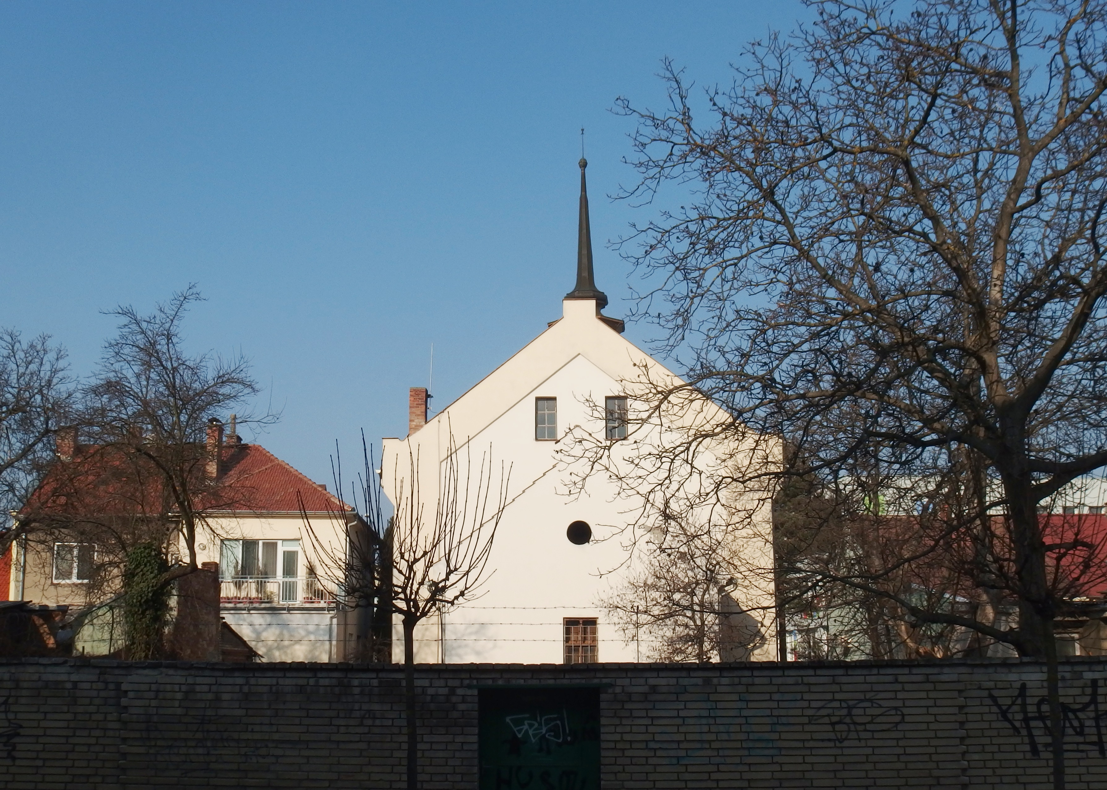 Hodonín, Czech Republic. Legionářů Street.